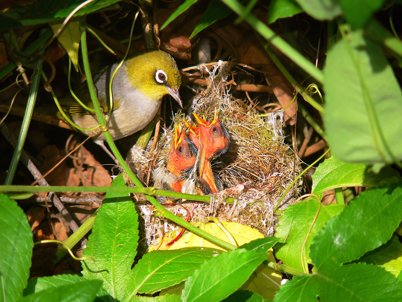 Silvereye (Zosterops lateralis) feeding chicks